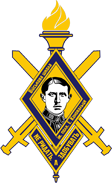 Emblem, Military school of colonel Yevhen Konovalets